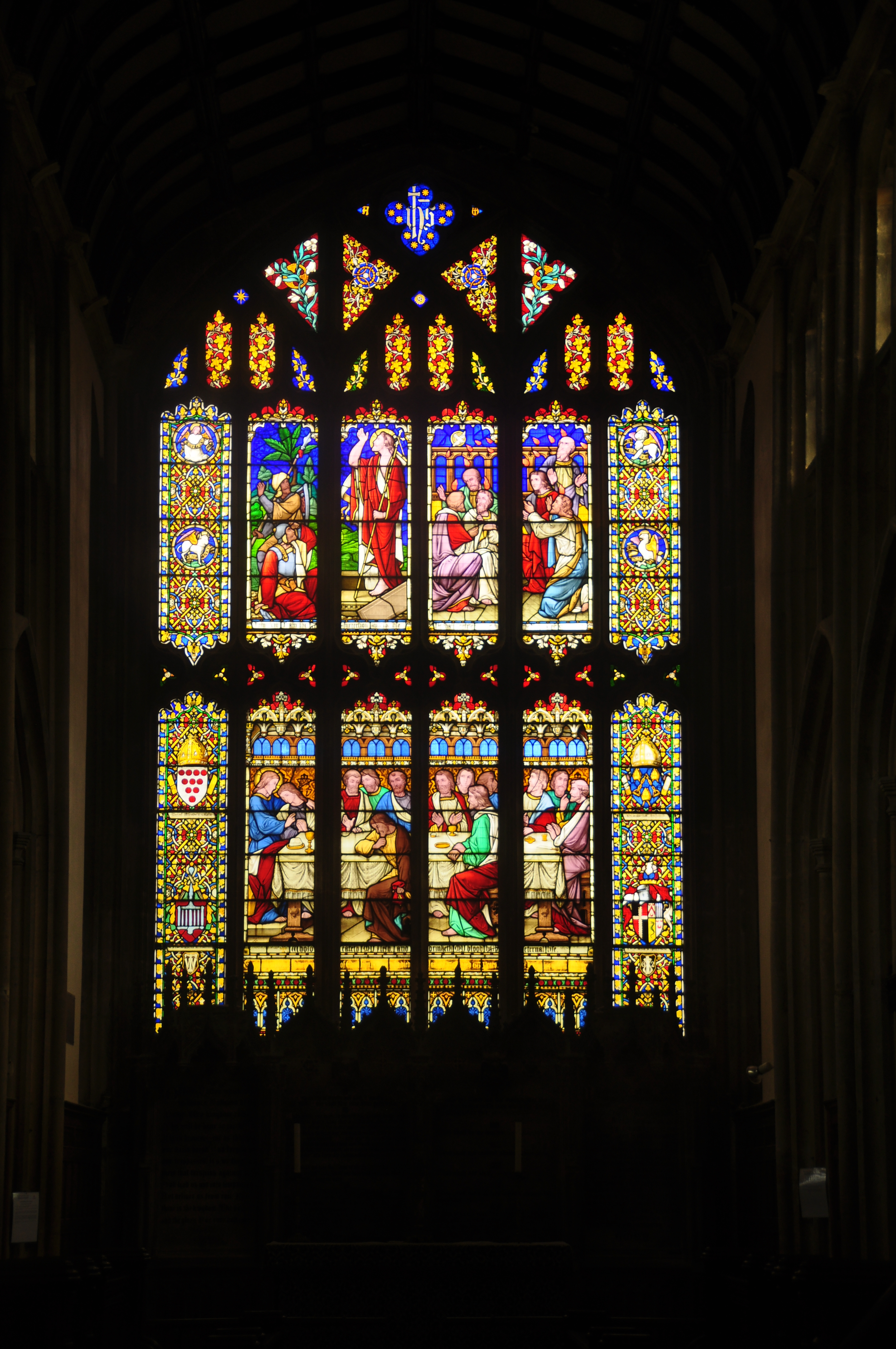 Stained glass in St Lawrence's Church, Evesham